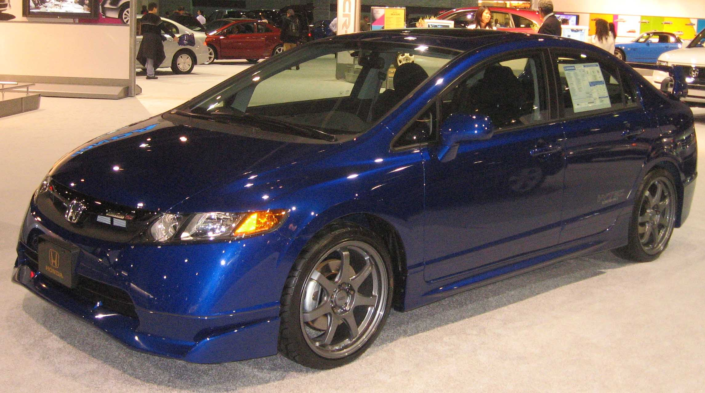 2008 Honda Civic photographed at the 2008 Washington DC Auto Show.